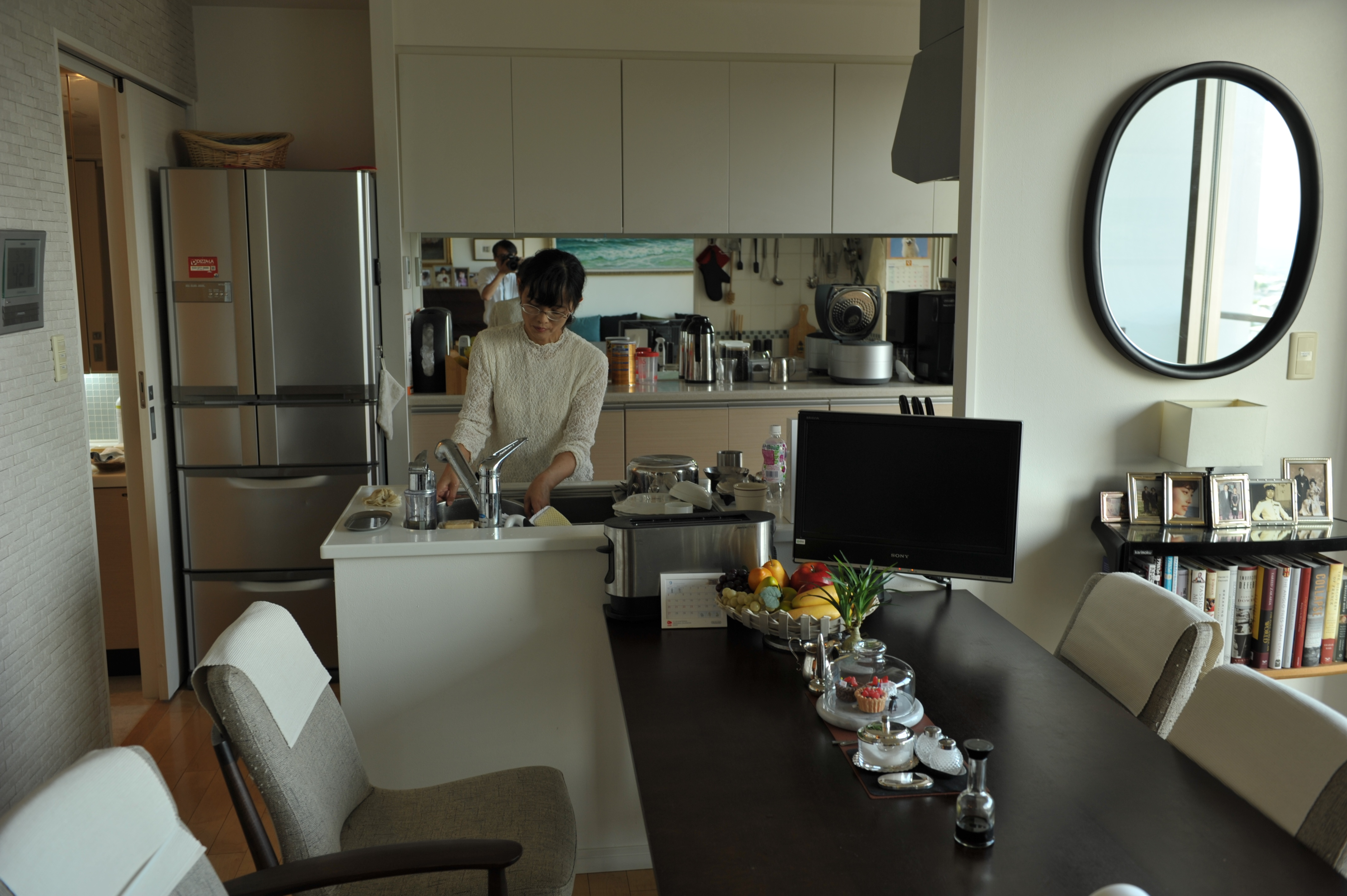 The dining room, kitchen, and a portion of an office in a Japanese home. Also visible are a stainless steel refrigerator and appliances, kitchen cabinets, a sink faucet, a female cook (the woman in white cooking), a dining room table and chairs, a flat panel monitor or television, a mirror, and several books and shelves.